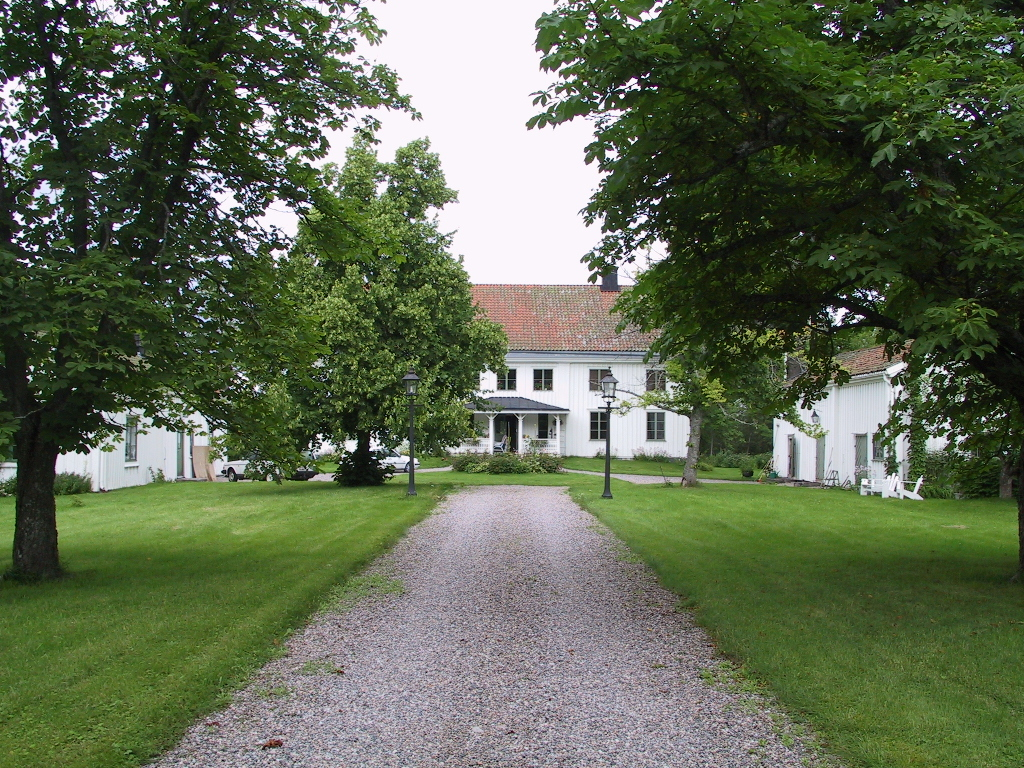 Bergsängs gård, Nora, Sweden